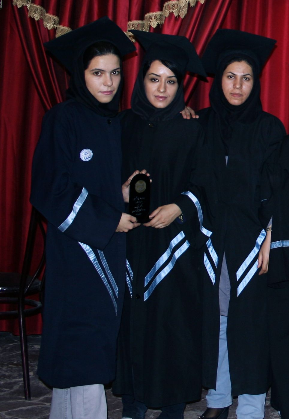 Some Female Alumnae of Isfahan University of Technology during graduation ceremony in Academic dress.